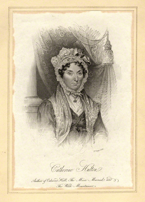 Stipple engraving of Catherine Hutton by William Read, first published in 1824